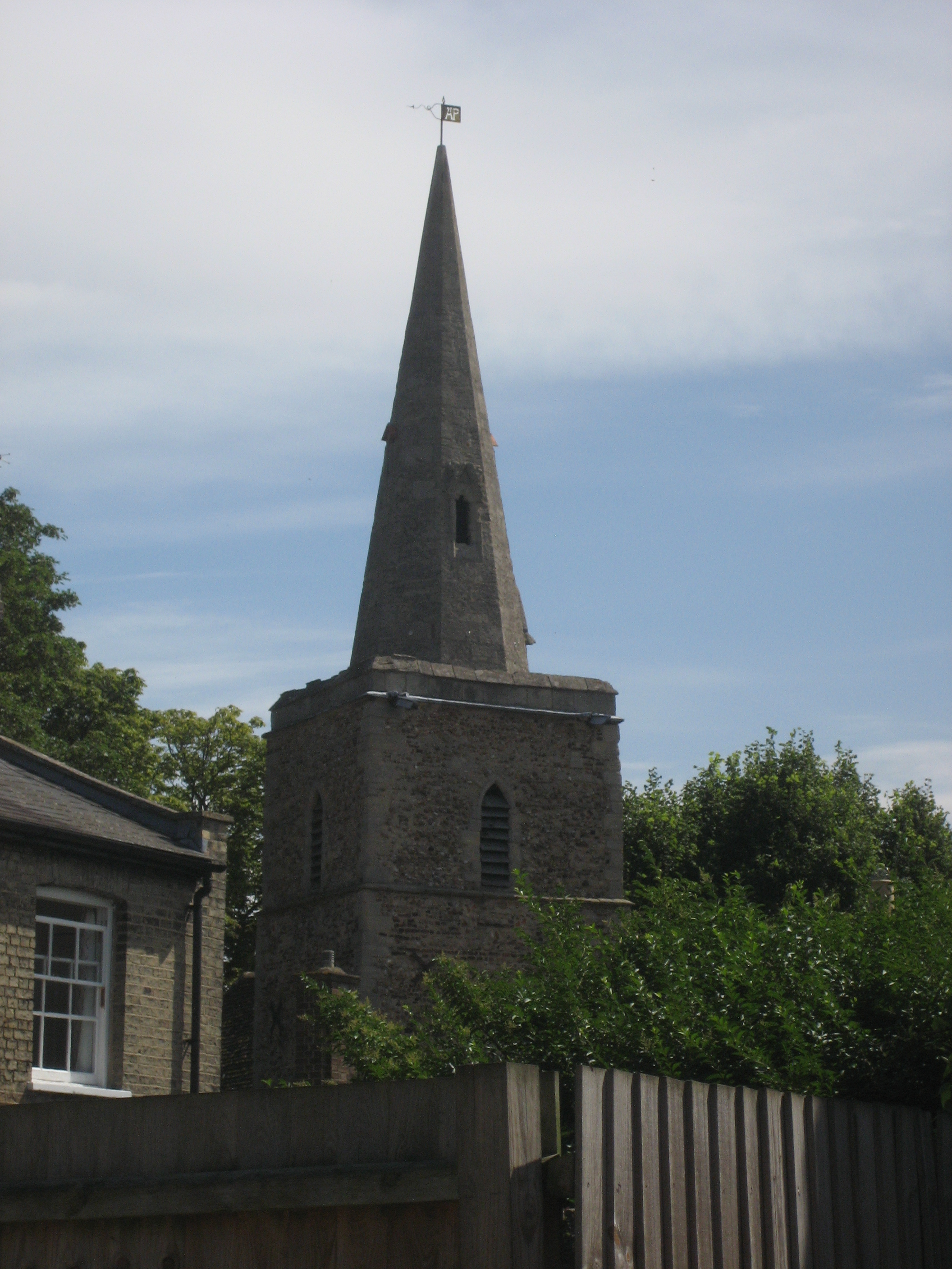 St Peter's Church, Cambridge. Visible on top: weather vane with letters AP, supposedly for Andrew Perne